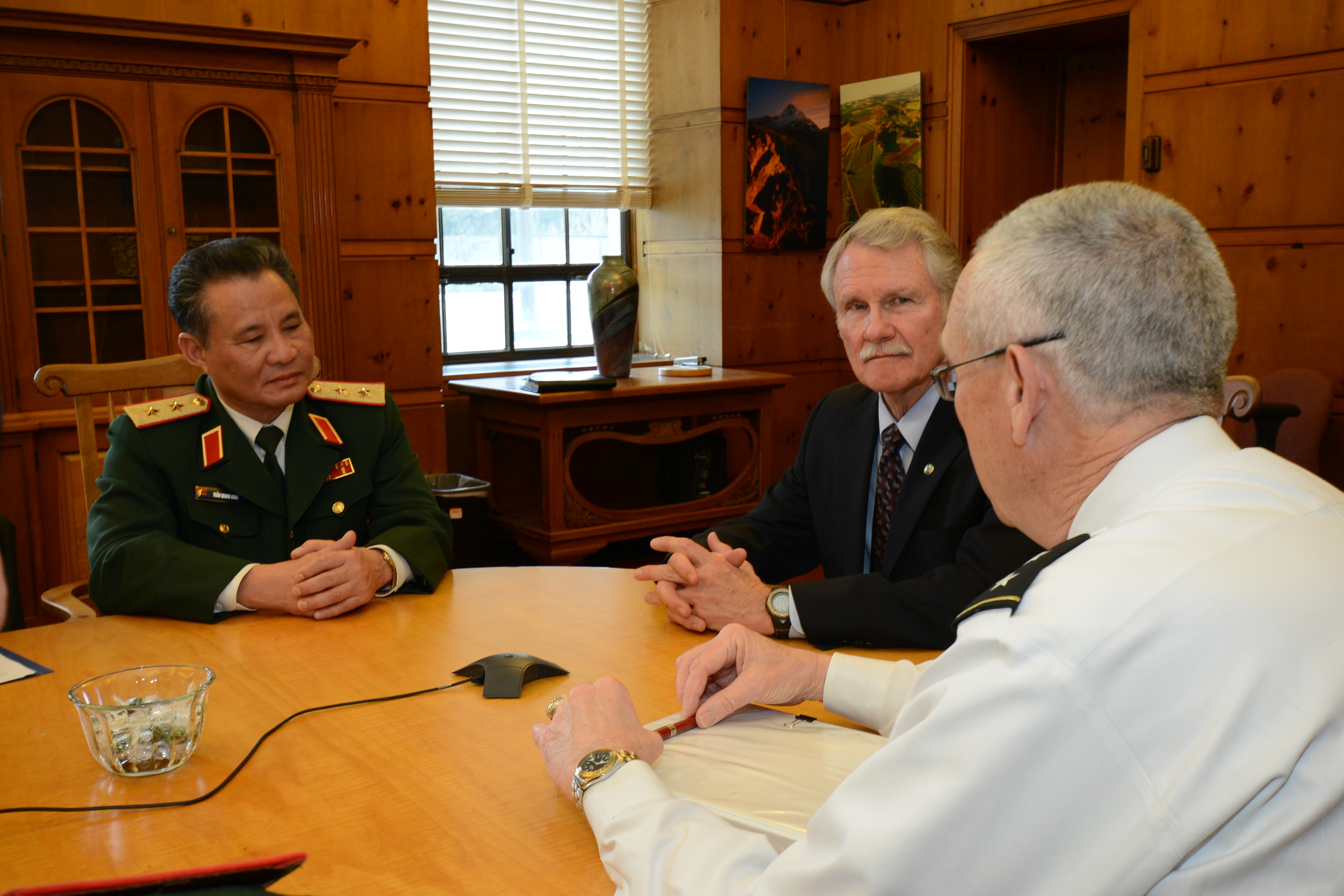 Lt. Gen. Tran Quang Khue (left), Deputy Chief of General Staff of the Vietnam People's Army, and Maj. Gen. Raymond F. Rees (right), Adjutant General, Oregon, meet with Oregon Governor John Kitzhaber at the State Capitol in Salem, Ore., April 15. Tran is leading a delegation which is scheduled to visit several Oregon National Guard facilities before concluding the week with a State Partnership Program workshop in Portland, Ore., April 17-19. The partnership between the Oregon National Guard and Vietnam was made official in November 2012 as part of the National Guard Bureau program, which pairs emerging democracies with National Guard states. (Photo by Master Sgt. Nick Choy, Oregon Military Department Public Affairs)